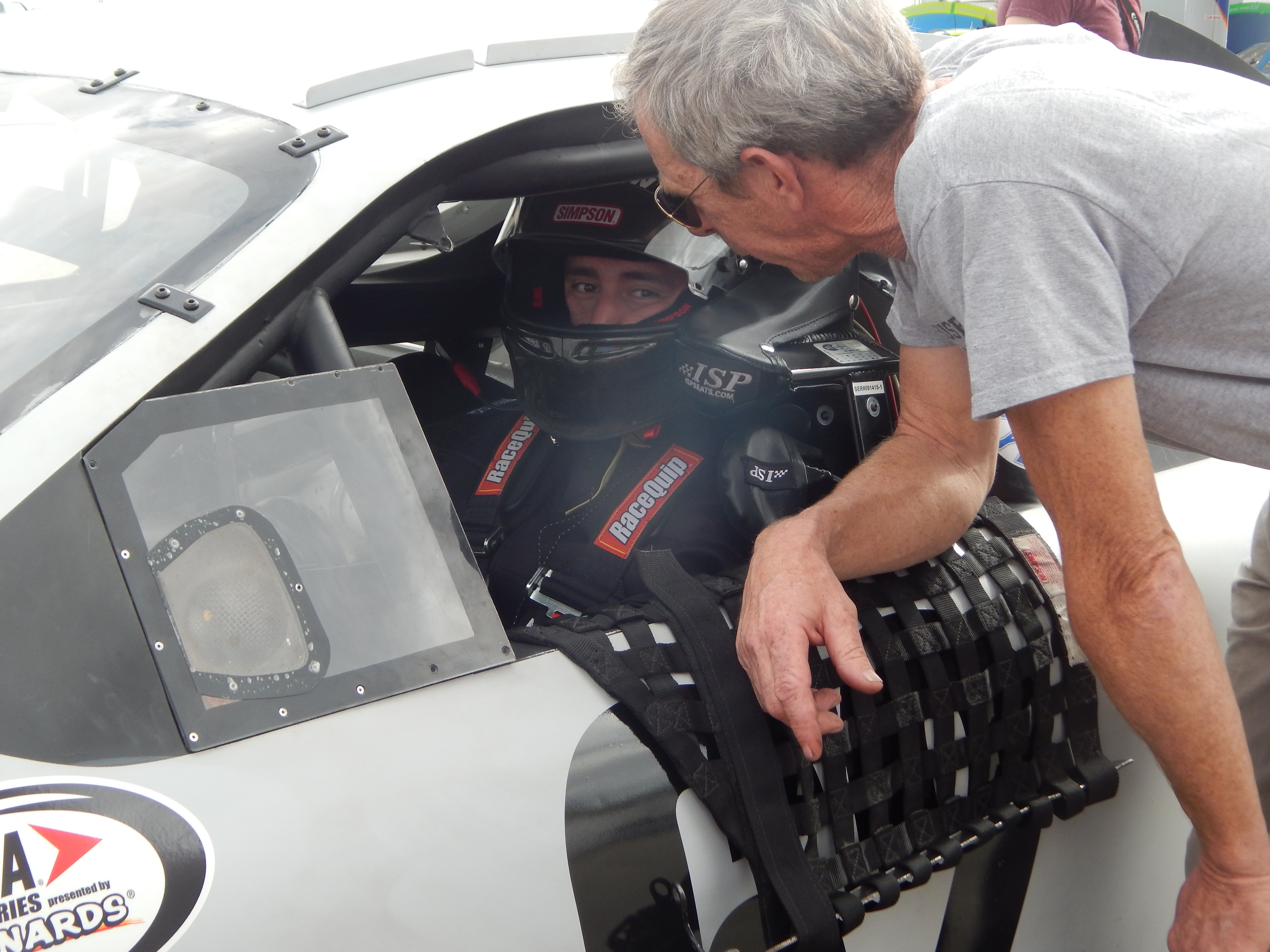 Mclaughlin at Daytona International speedway